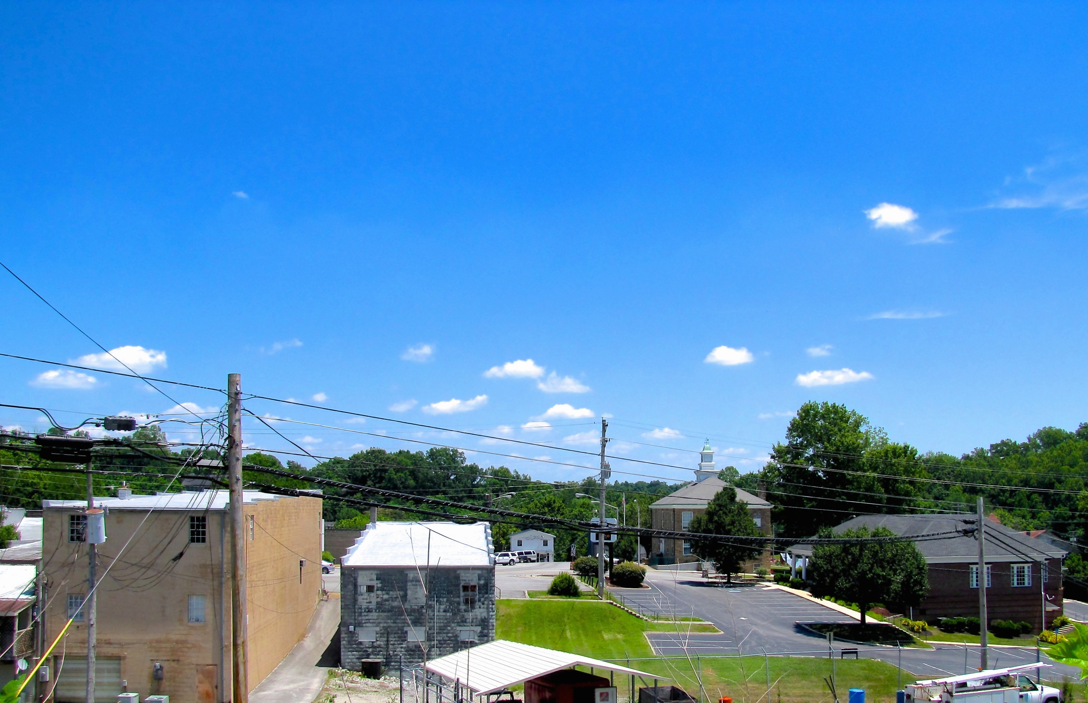 Byrdstown, Tennessee, United States, looking east from the First Baptist Church parking lot. The Pickett County Courthouse is below, right of center.